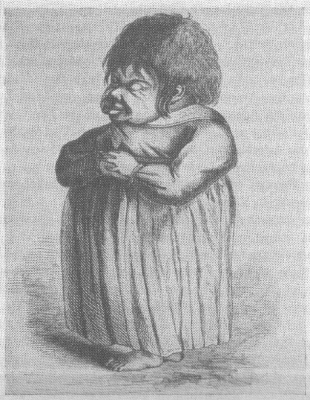 Cretinism as shown in Virchow